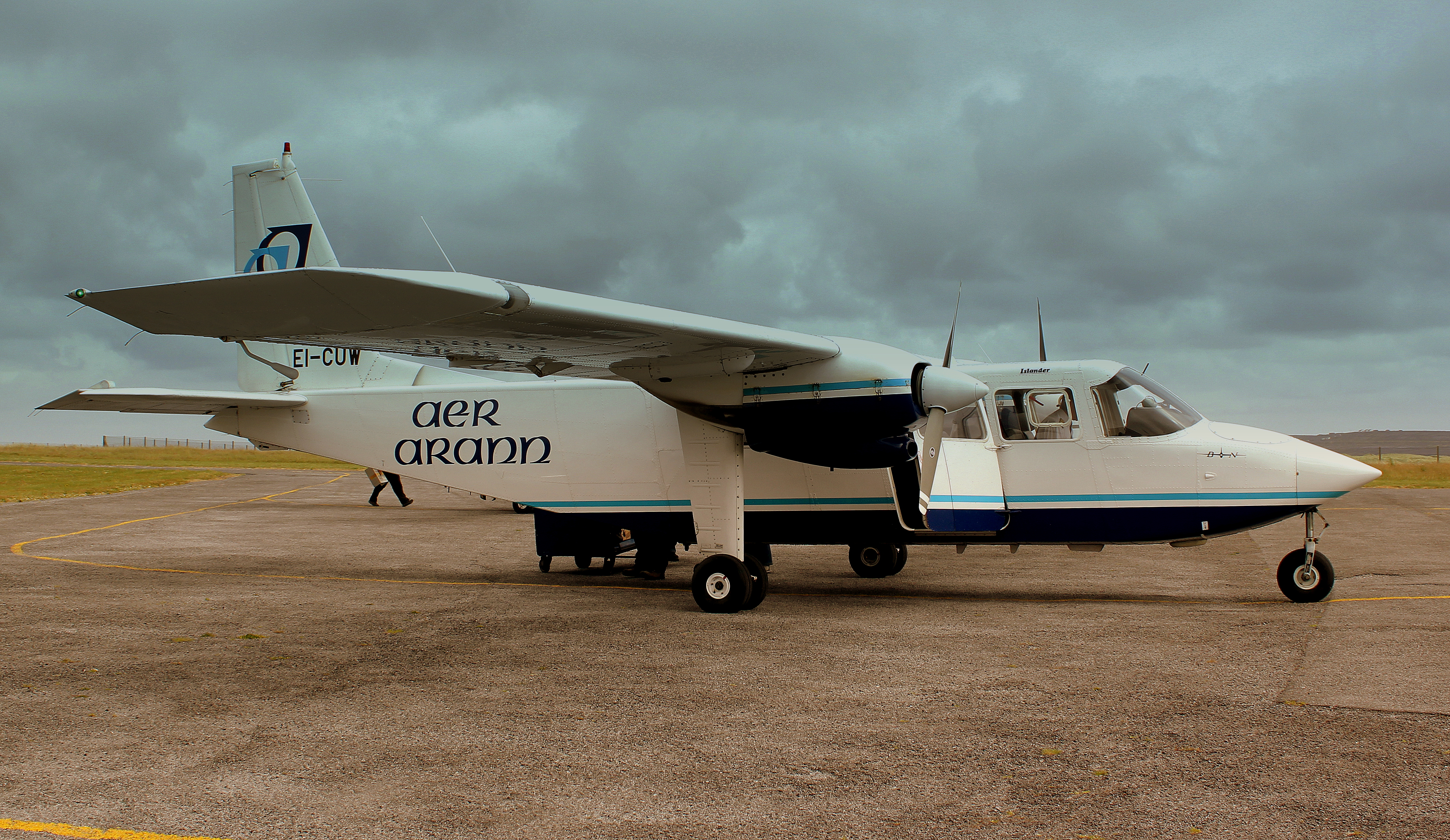 AER ARRAN ISLANDS BN2B ISLANDER EI-CUW AT INIS MOR AIRFIELD ARRAN ISLAND IRELAND JULY 2013